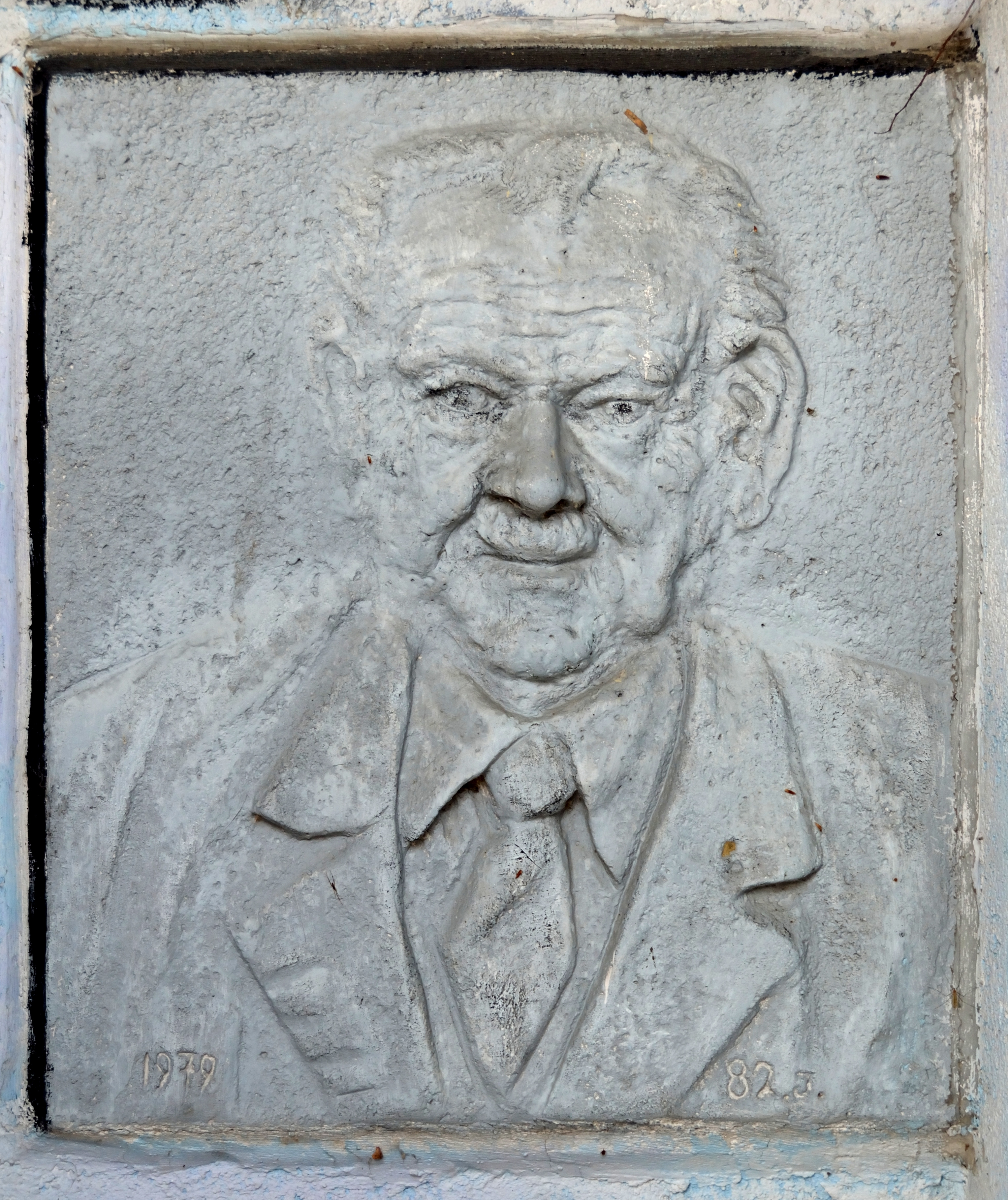 Saint Hubertus chapel in Pyhra, Lower Austria, was built in 1979, sponsored by local politician Karl Eichinger, painting by J. Hochfilzer. Half relief of sponsor Karl Eichinger.